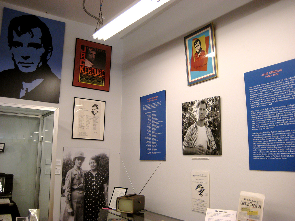 Jack kerouac's room in the Beat Museum, in San Francisco.